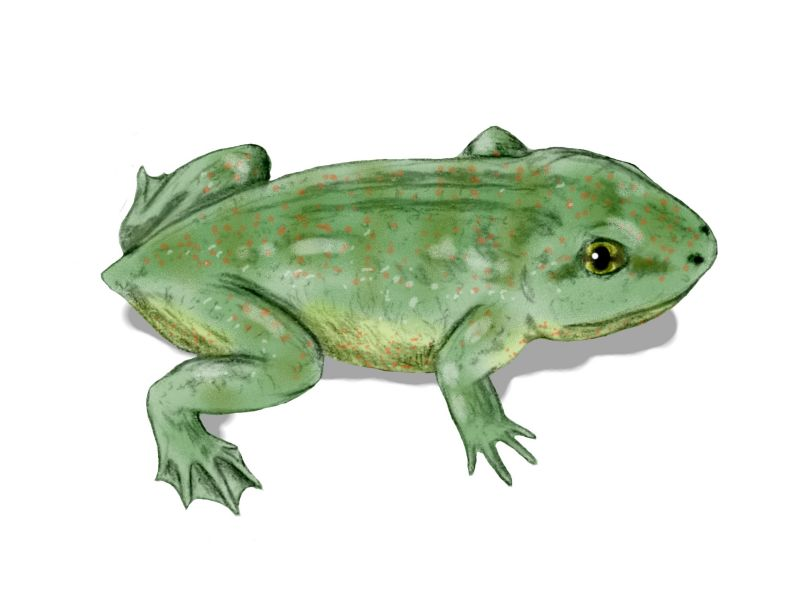 Triadobatrachus massinoti, a frog from the Early Triassic of Madagascar, pencil drawing